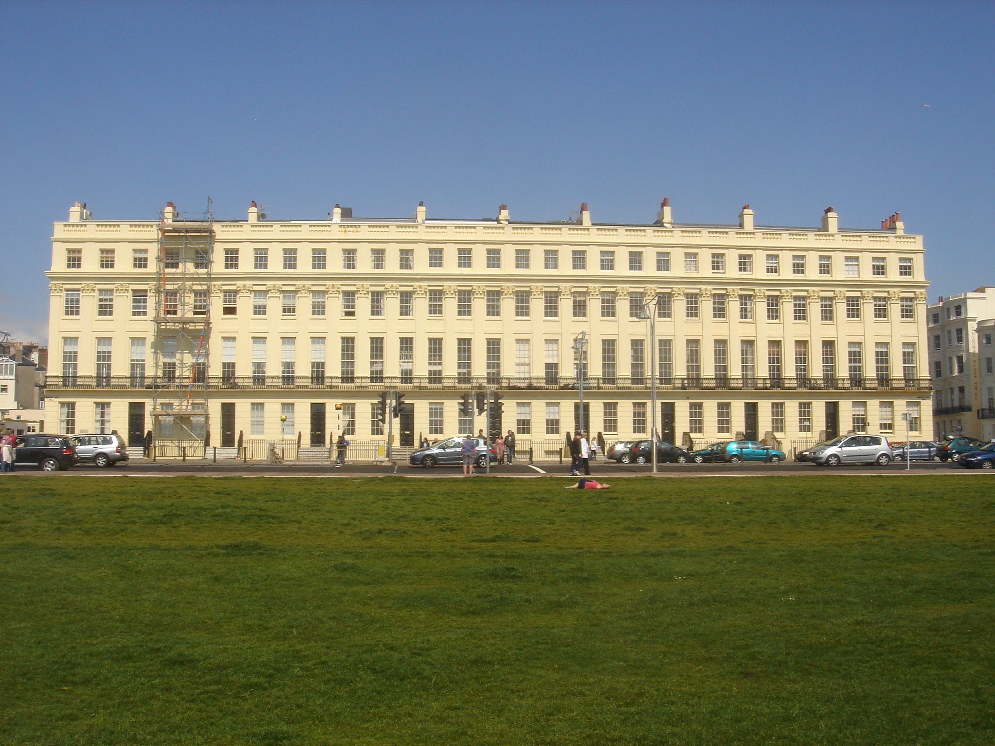 33–42 Brunswick Terrace, Brunswick estate, Hove, City of Brighton and Hove, England. The westernmost part of the four-section Brunswick Terrace, part of the Brunswick estate development of the 1820s. Listed at Grade I by English Heritage (IoE Code 365503)